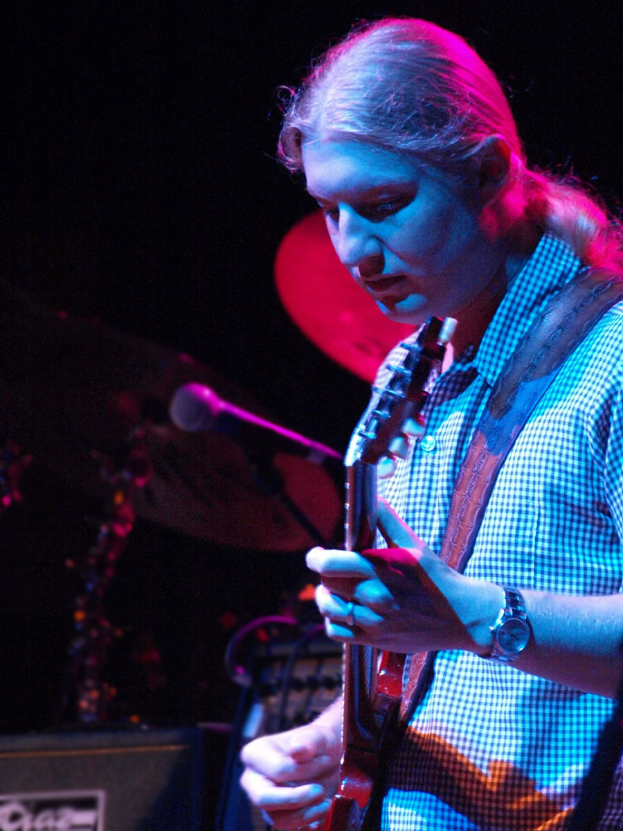 Derek Trucks with The Allman Brothers Band Holmdel, New Jersey PNC Bank Arts Center